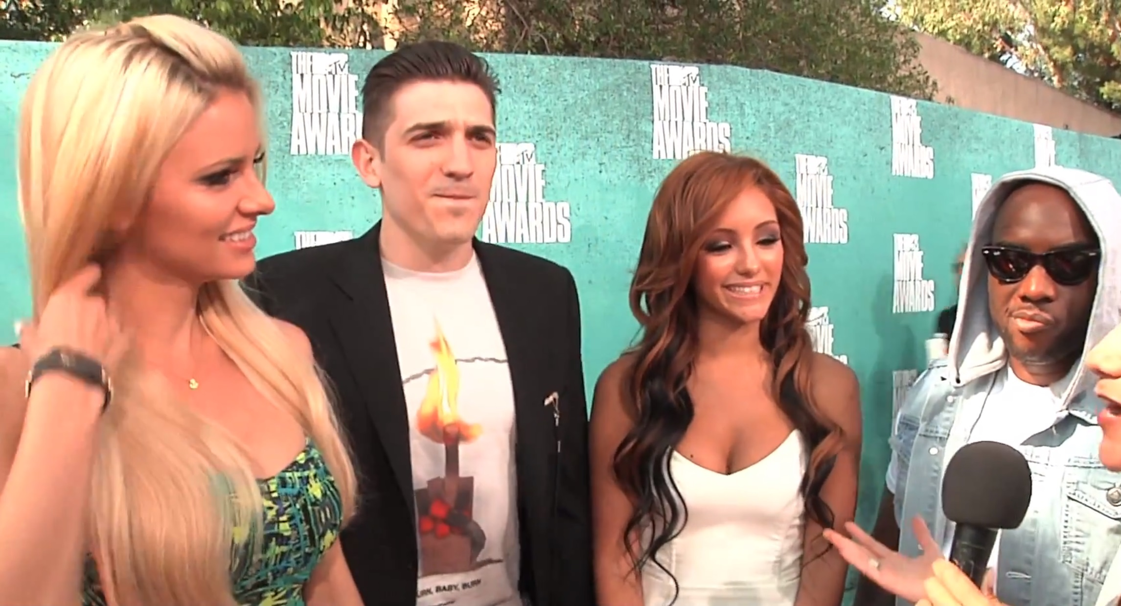 The cast of Guy Code interviewed at the MTV Movie Awards 2012 on "The Hollywood Social Lounge". Left to right: April Rose, Andrew Shulz, Melanie Iglesias, and Template:Charlamagne Tha God. Kelly V. Dolan & Mabel Aragon HOST the 2012 MTV Movie Awards Red Carpet for NBC News Radio KCAA 1050 AM "LIVE with Aaron & Kelly"